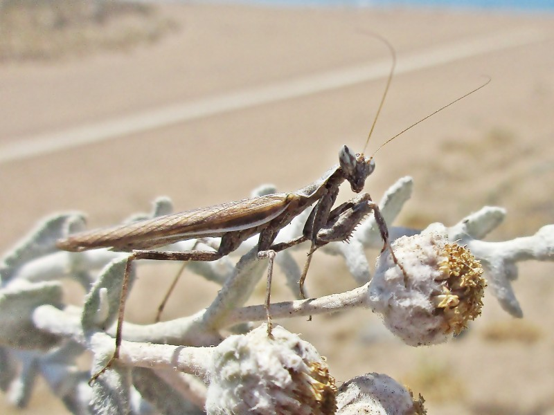 Ameles spallanzania (Mantidae) (European Dwarf Mantis) - (imago), Narbolia (comuni), Italy